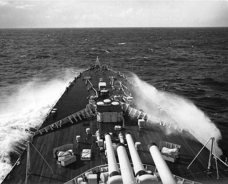 Heavy seas break over the bow of HMS Vanguard during NATO exercise Operation "Mainbrace", 19 September 1952. At the time, Vanguard was making about 30 knots during a "speed run". Photographed by Blanchette.